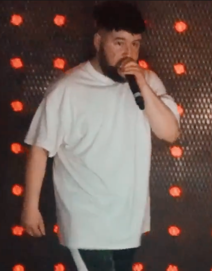 S-X performing in London (2018)